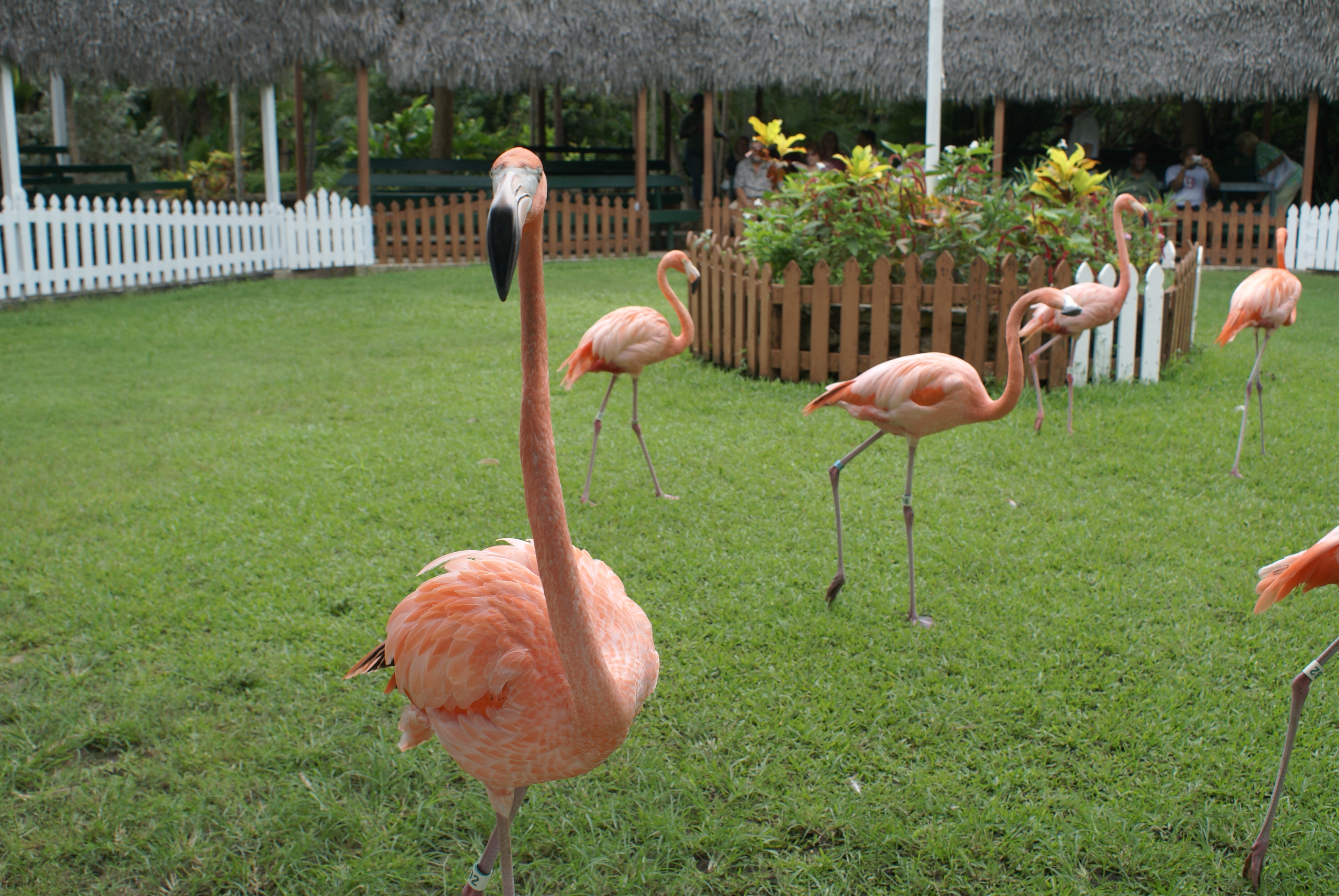 A group of flamingoes walking around the ring in the show at Ardastra Gardens, Zoo and Conservation Centre, Nassau, The Bahamas.